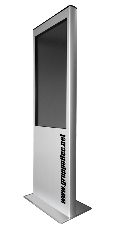 Multimedia Kiosk